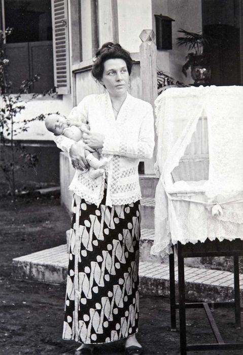 Portrait of Mrs. Van der Willegen and her sixteen days old son Johan Harmen Rudolf